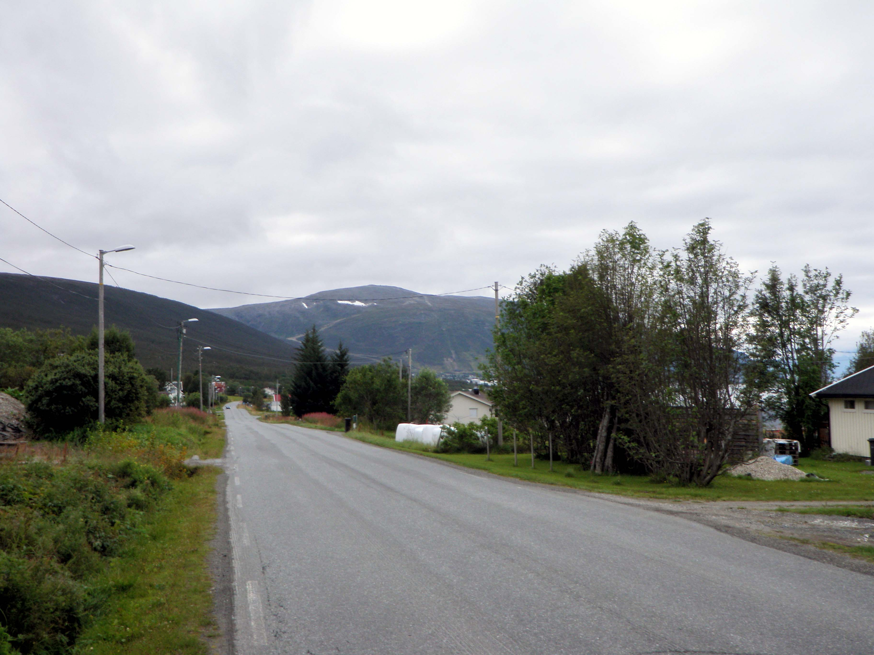 The village of Movik, in Tromsø, Troms, Norway. County road 53 runs through the village.